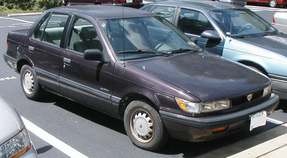 1989-1992 Eagle Summit sedan photographed in USA.